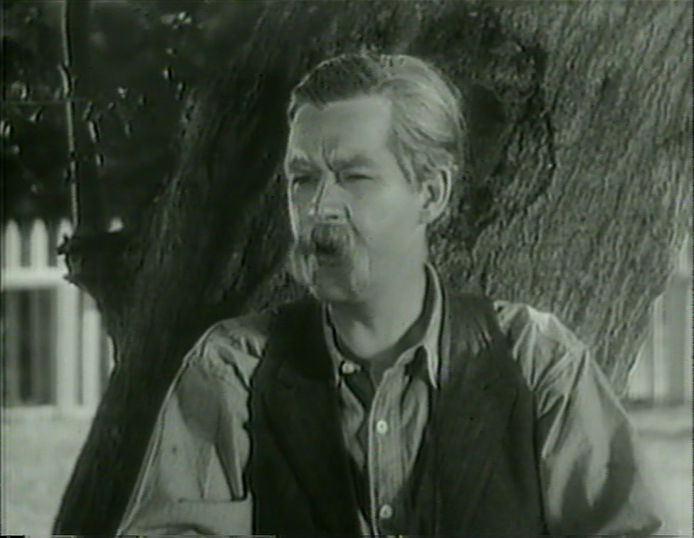 George Hayes in The Lucky Texan